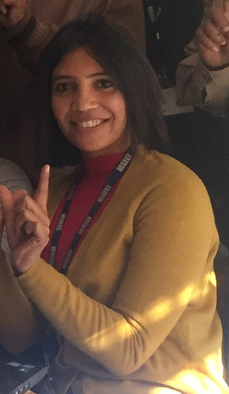 Bidhya Chapagain participating in BBC 100 Women Editathon- 2016 organized by Wikimedia Nepal.